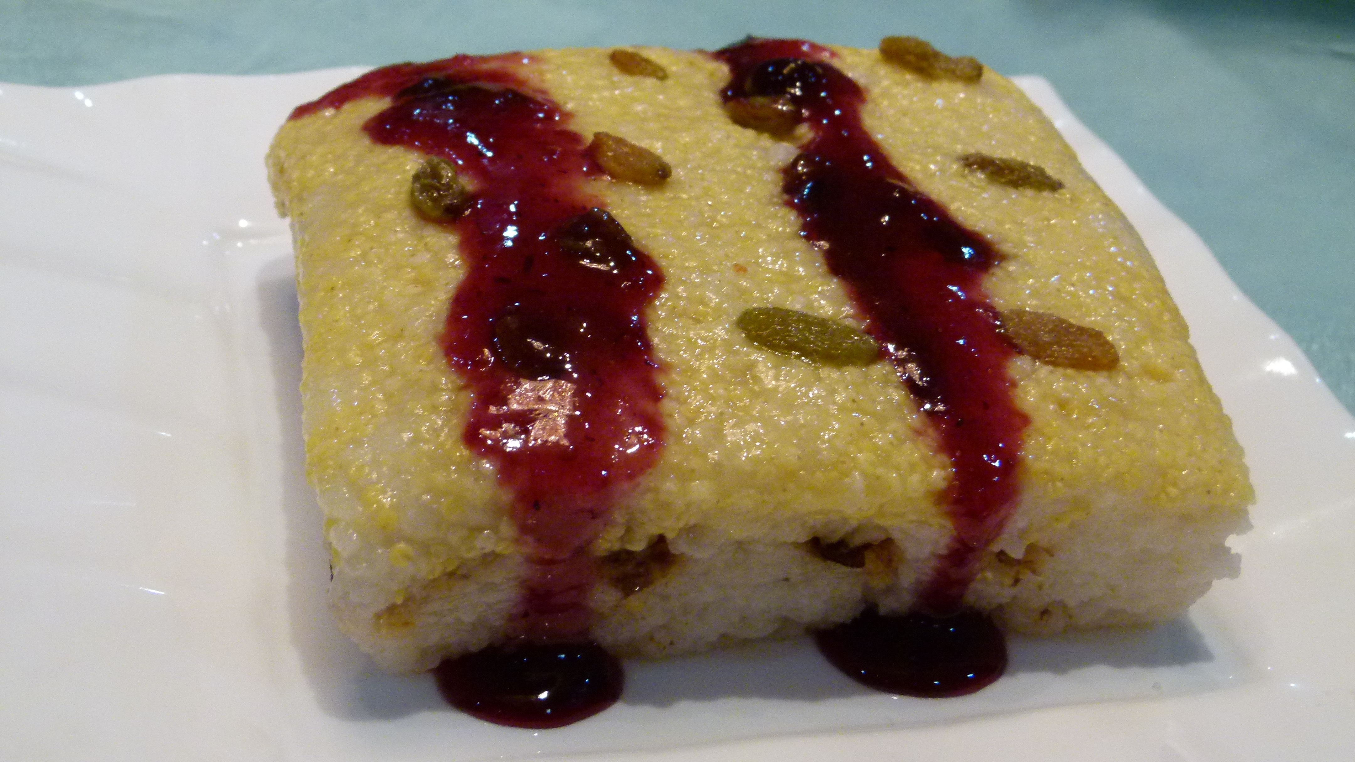 Chinese rice cake (米糕 migao, Reistorte), restaurant in Baotou, Inner Mongolia, China